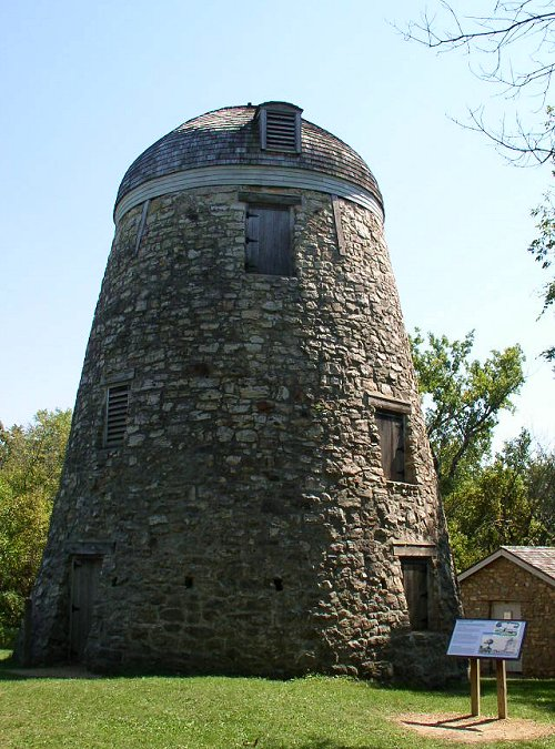 A wind-powered grist mill built by Louis Seppmann